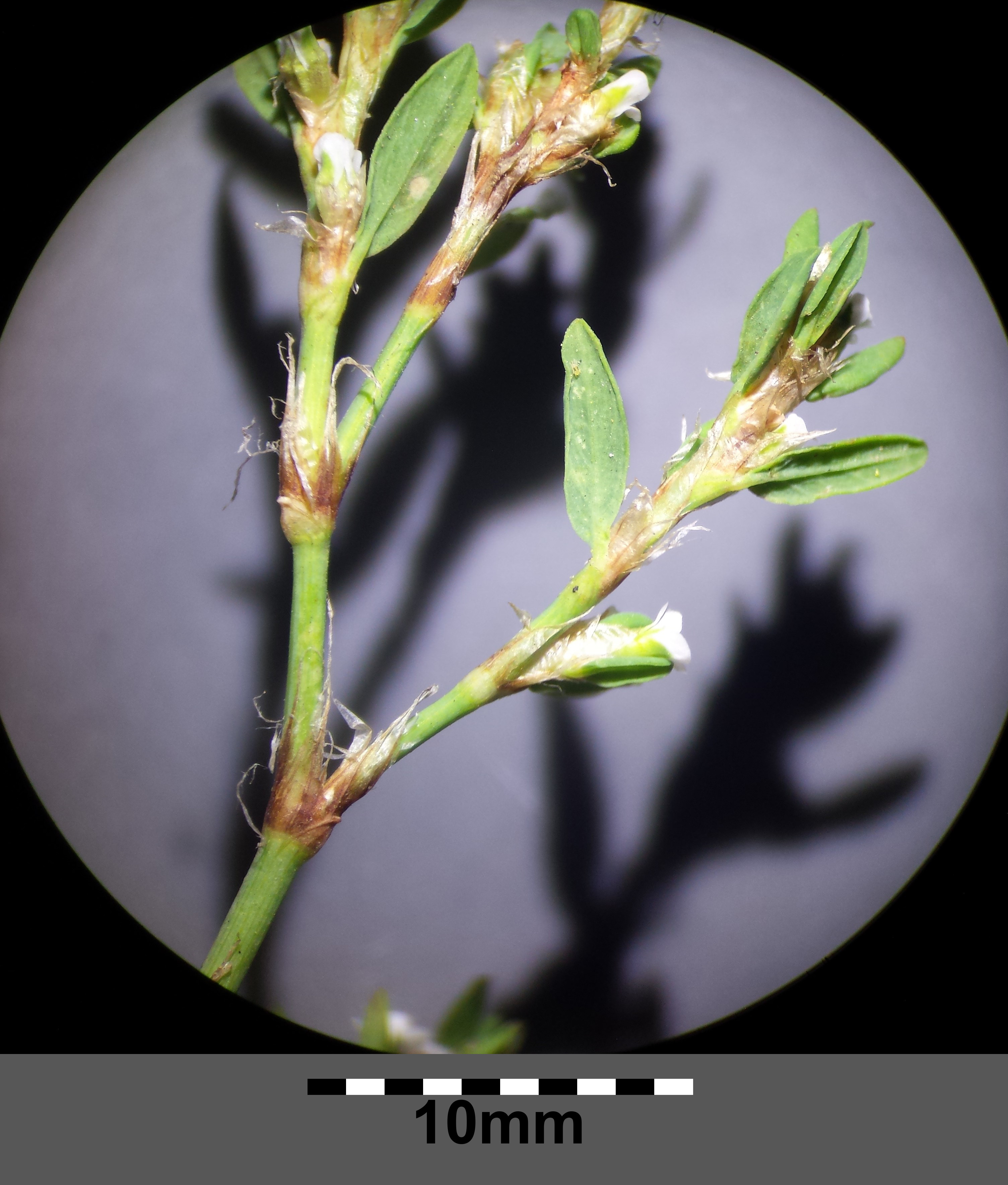 Inflorescence Taxonym: Polygonum aviculare subsp. depressum (s. lat.) ss Fischer et al. EfÖLS 2008 ISBN 978-3-85474-187-9 Location: Bodenstedtgasse, Vienna-Floridsdorf - ca. 160 m a.s.l. Habitat: ruderal area